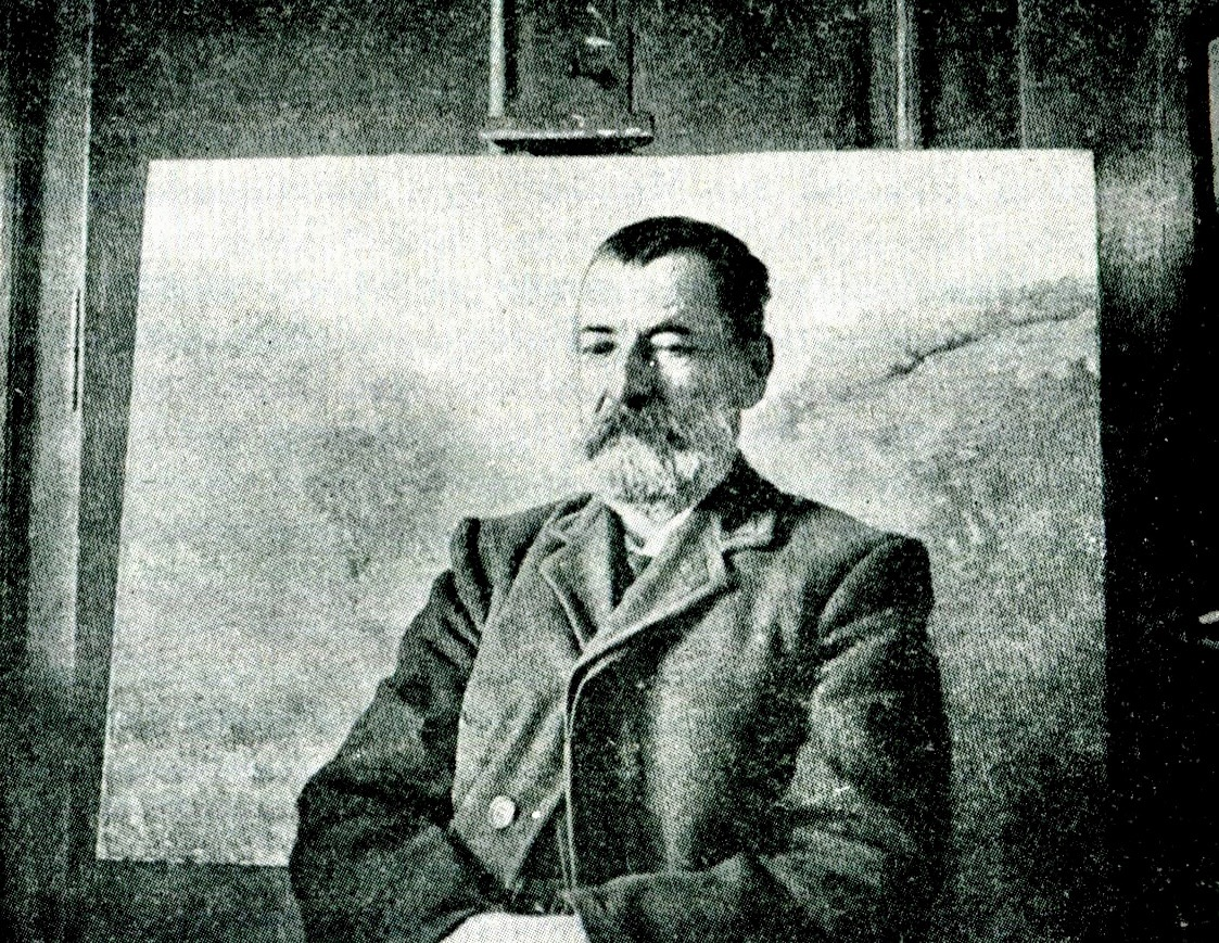 Alexandros Papadiamantis photographed in Athens, Greece in 1908.